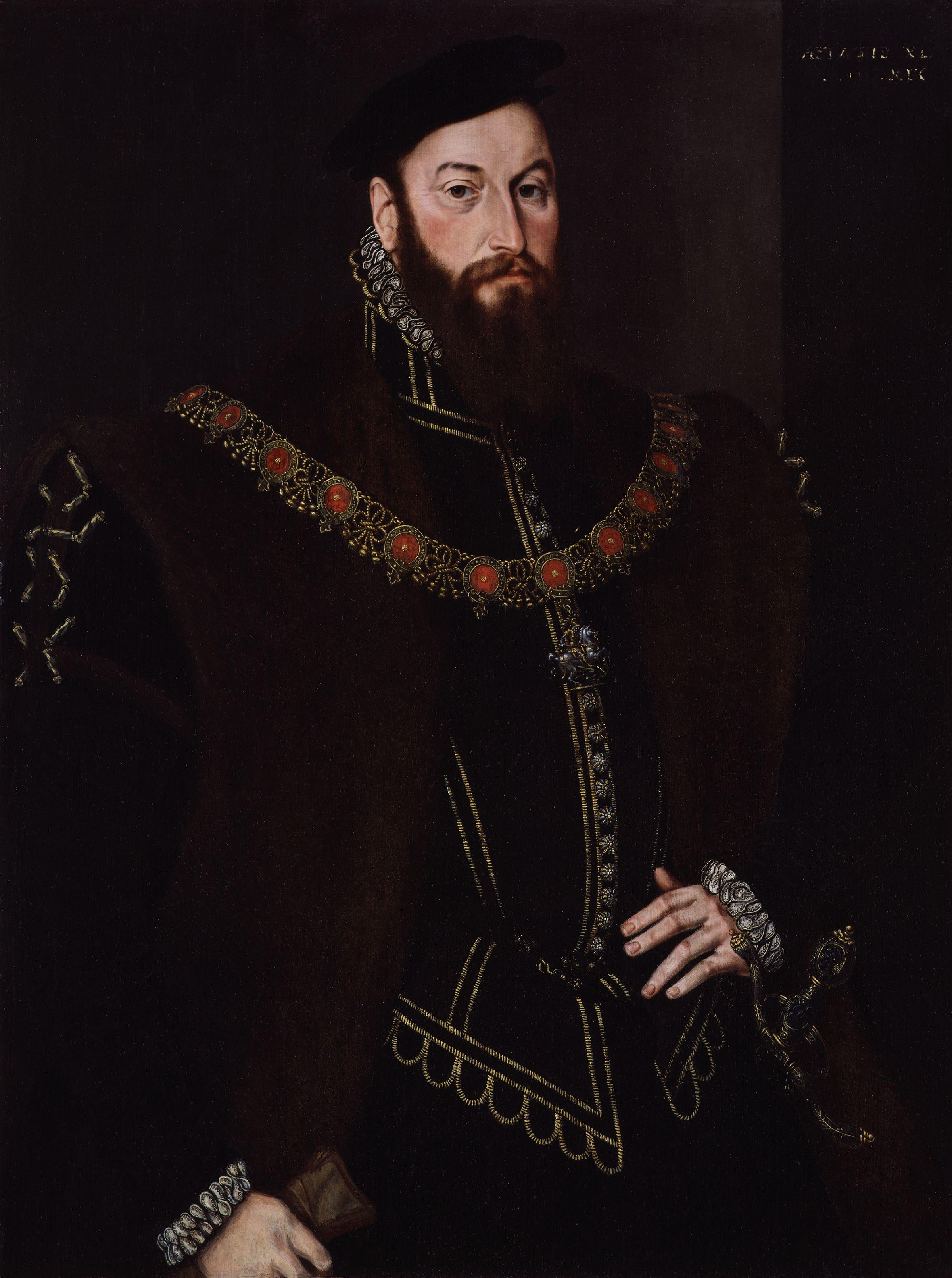 Portrait of Anthony Browne, 1st Viscount Montague (1528-1592)